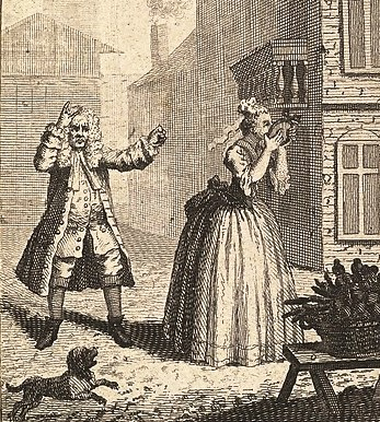 Detail from the frontispiece to Molière's 1660 comedy Sganarelle, ou Le Cocu imaginaire (Sganarelle, or The Imaginary Cuckold). This engraving after William Hogarth depicts Scene 6 of the play.